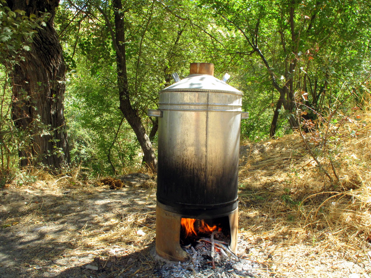 tea technology, samovar